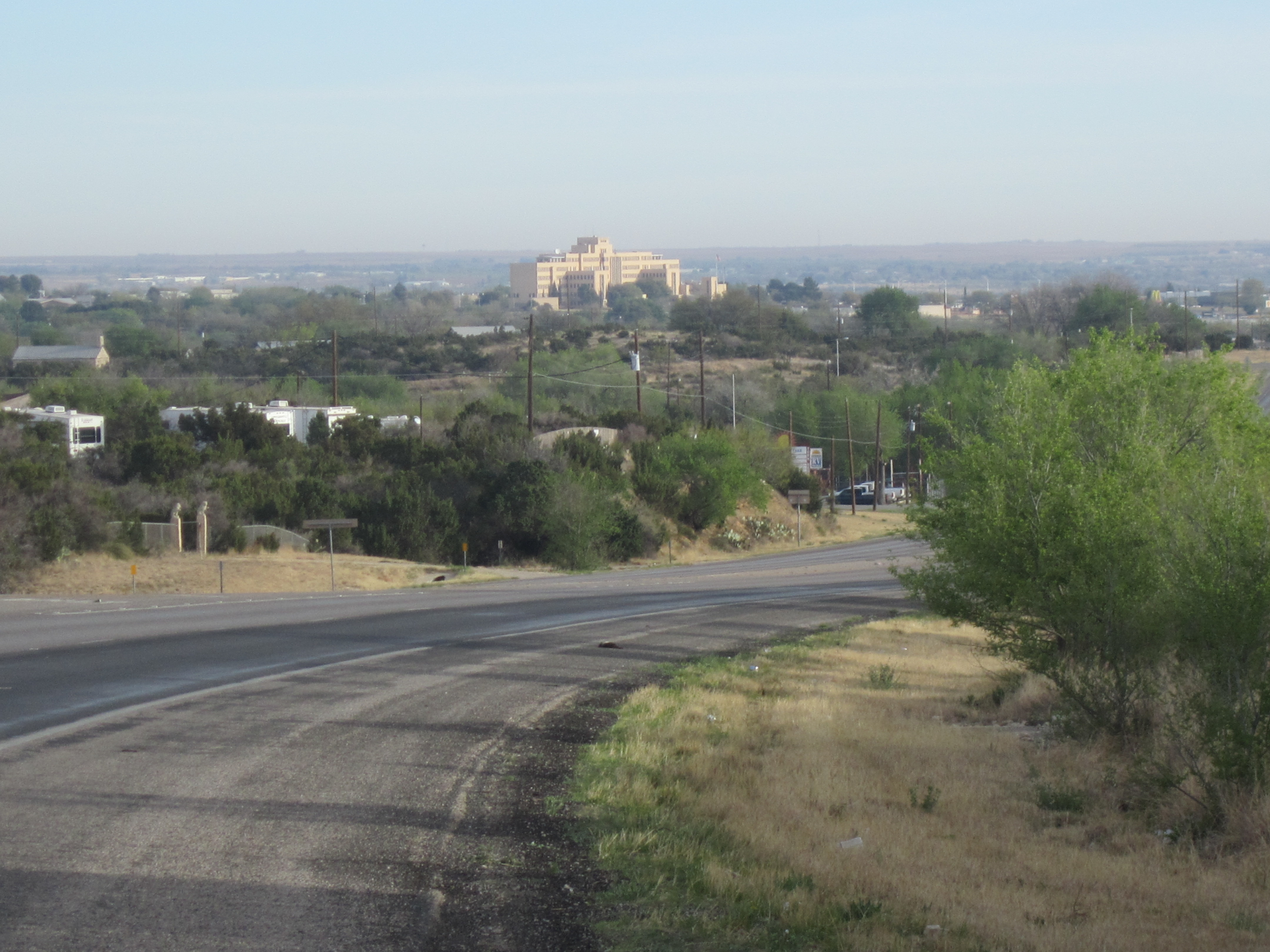 I took photo with Canon camera in Big Spring, TX.